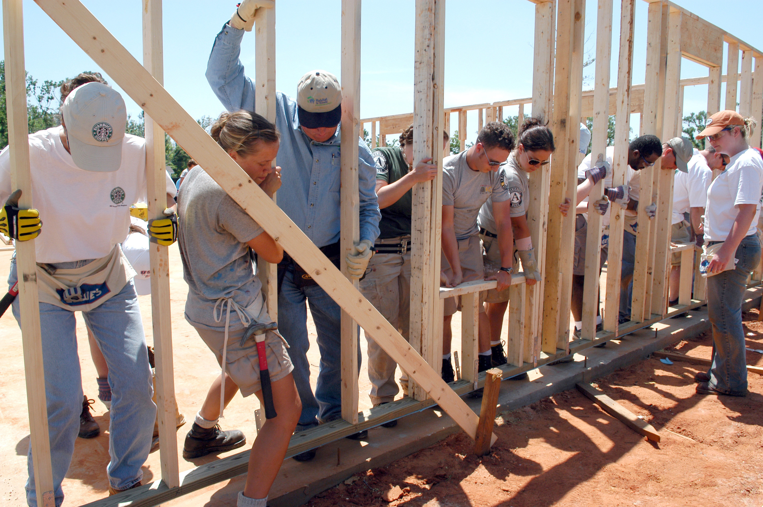 Gulfport, Miss., April 27, 2006 - Members of AmeriCorps*NCCC and corporate volunteers from Starbucks work with Kent Adcock, an Associate Director with Habitat for Humanity International, to secure a newly raised wall. This will be a bunkhouse for volunteers assisting with recovery on the Gulf Coast, and then presented to a displaced resident. George Armstrong/FEMA